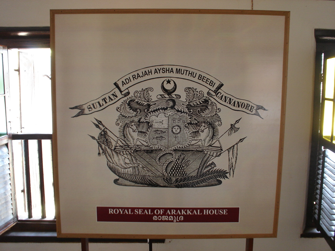 Seal of the Arakkal Family Seal. Photograph by me, Shijaz Abdulla.